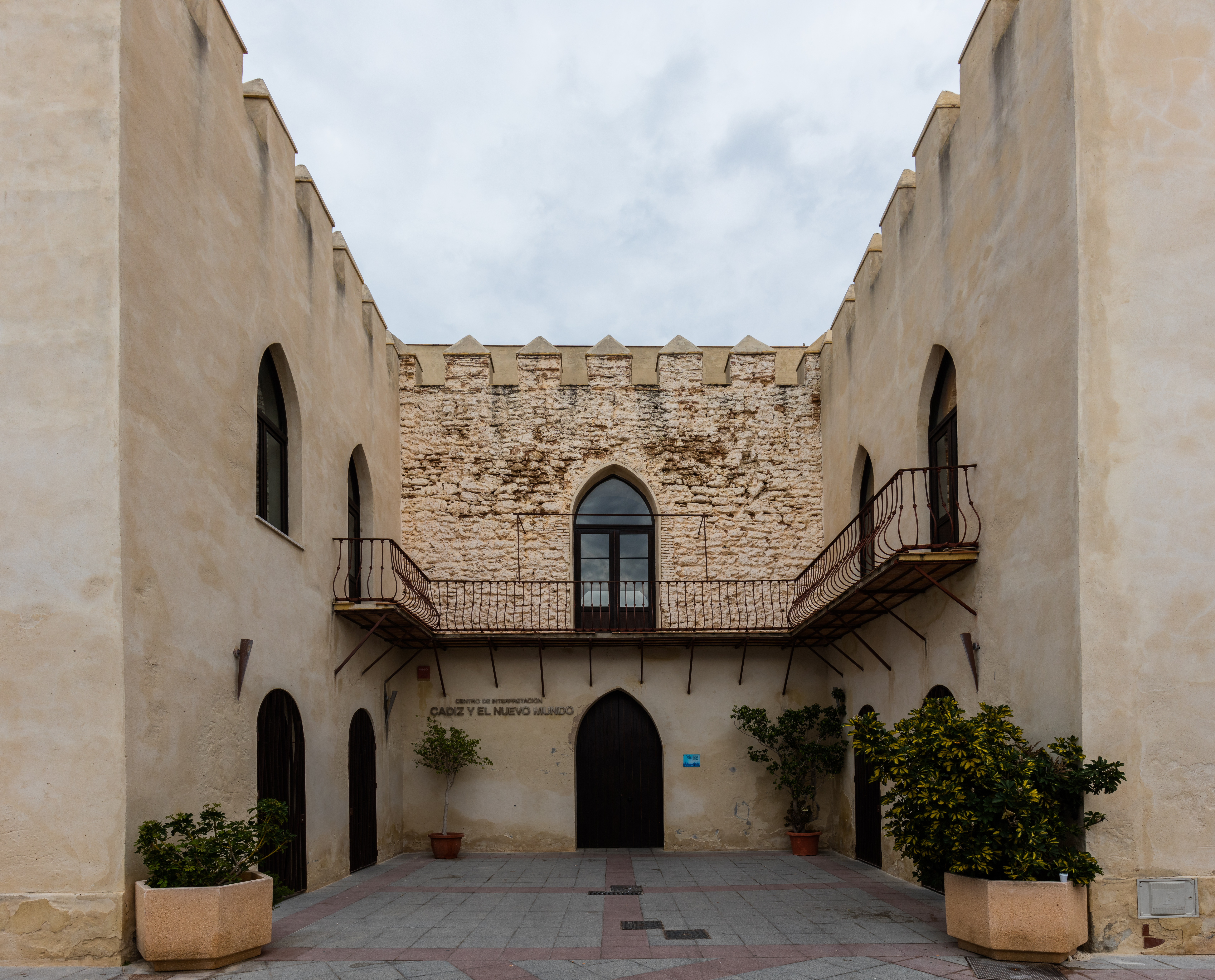 Chipiona castle, Spain